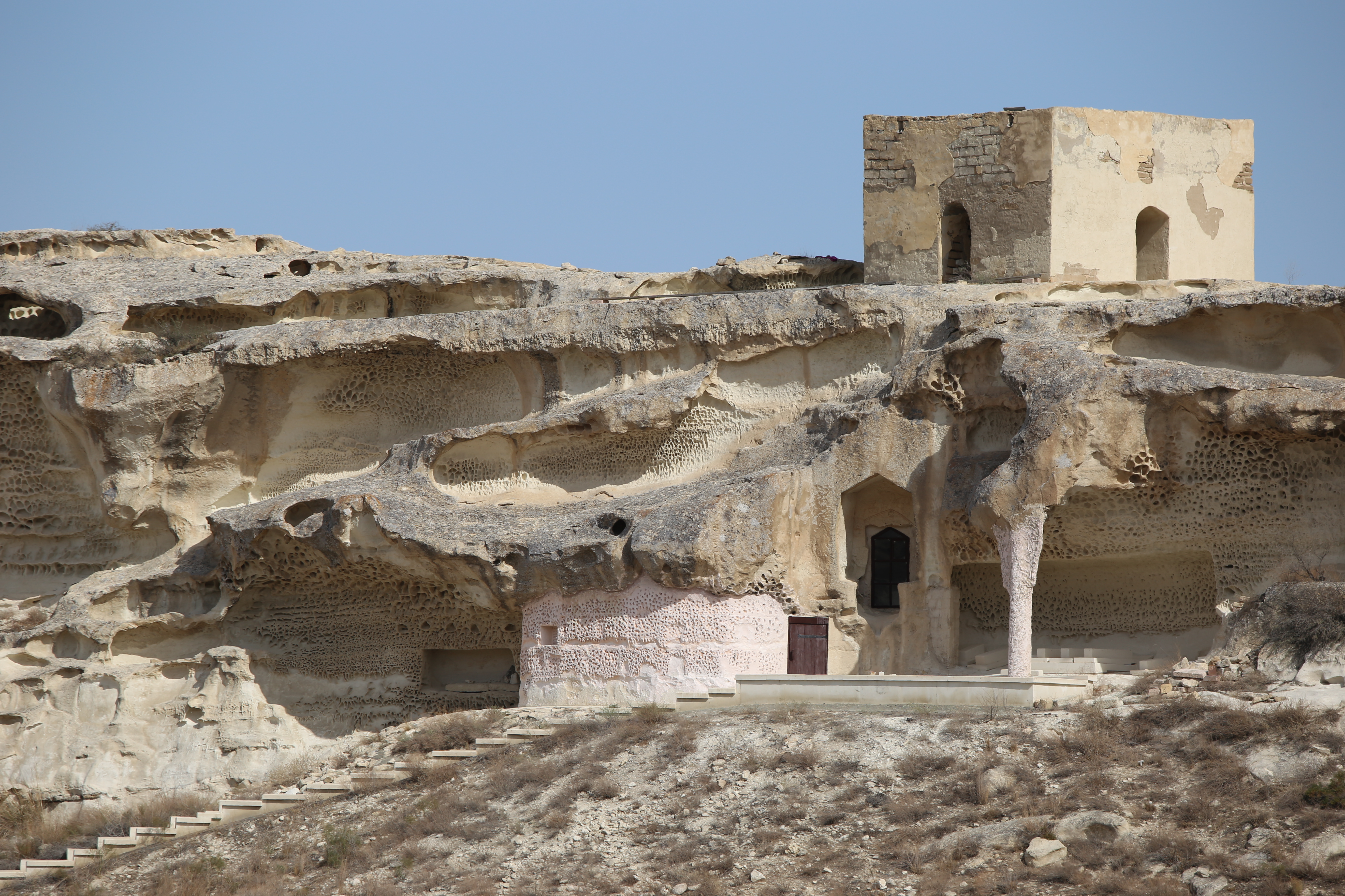 Shakpak-Ata Mosque